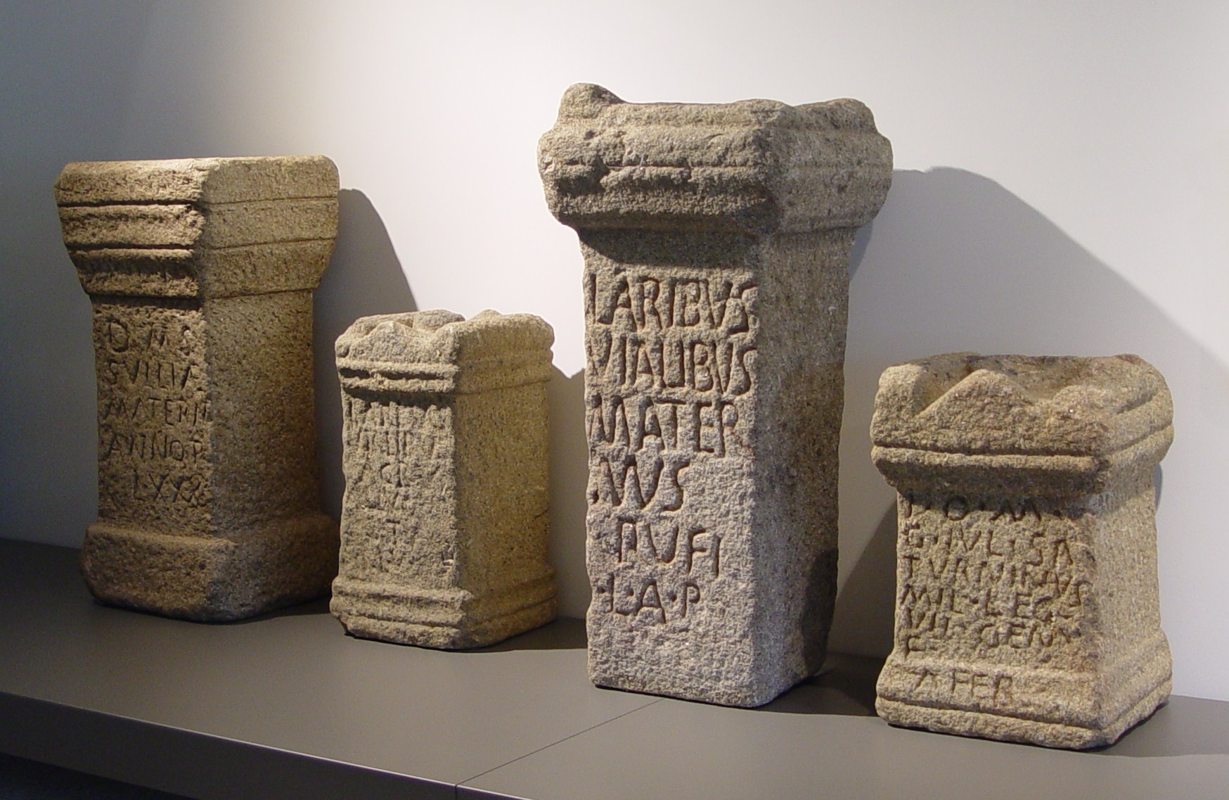 Ara in in D. Diogo de Sousa Museum, Braga, Portugal